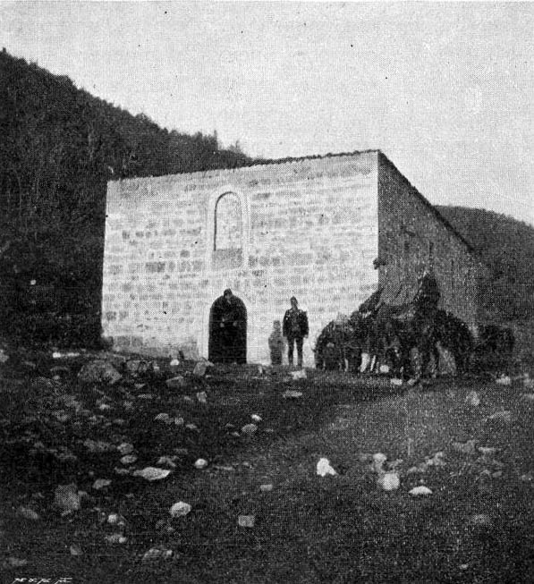 Monastery of Emperor Uroš near Nerodimlje, Nova iskra 22-23 (1899)